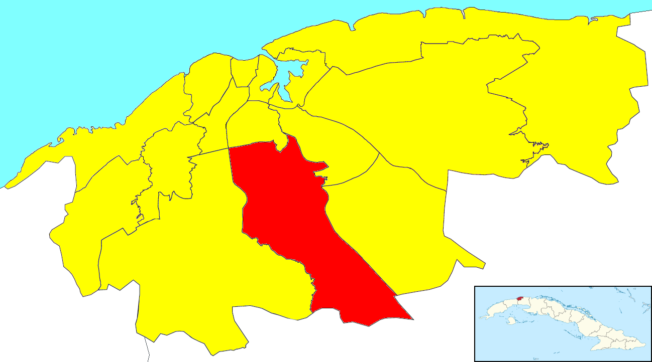 A map of the municipality of Arroyo Naranjo (shown in red) within the city of Havana (yellow). The little Cuban map in the corner shows Havana (dark red) within the island.